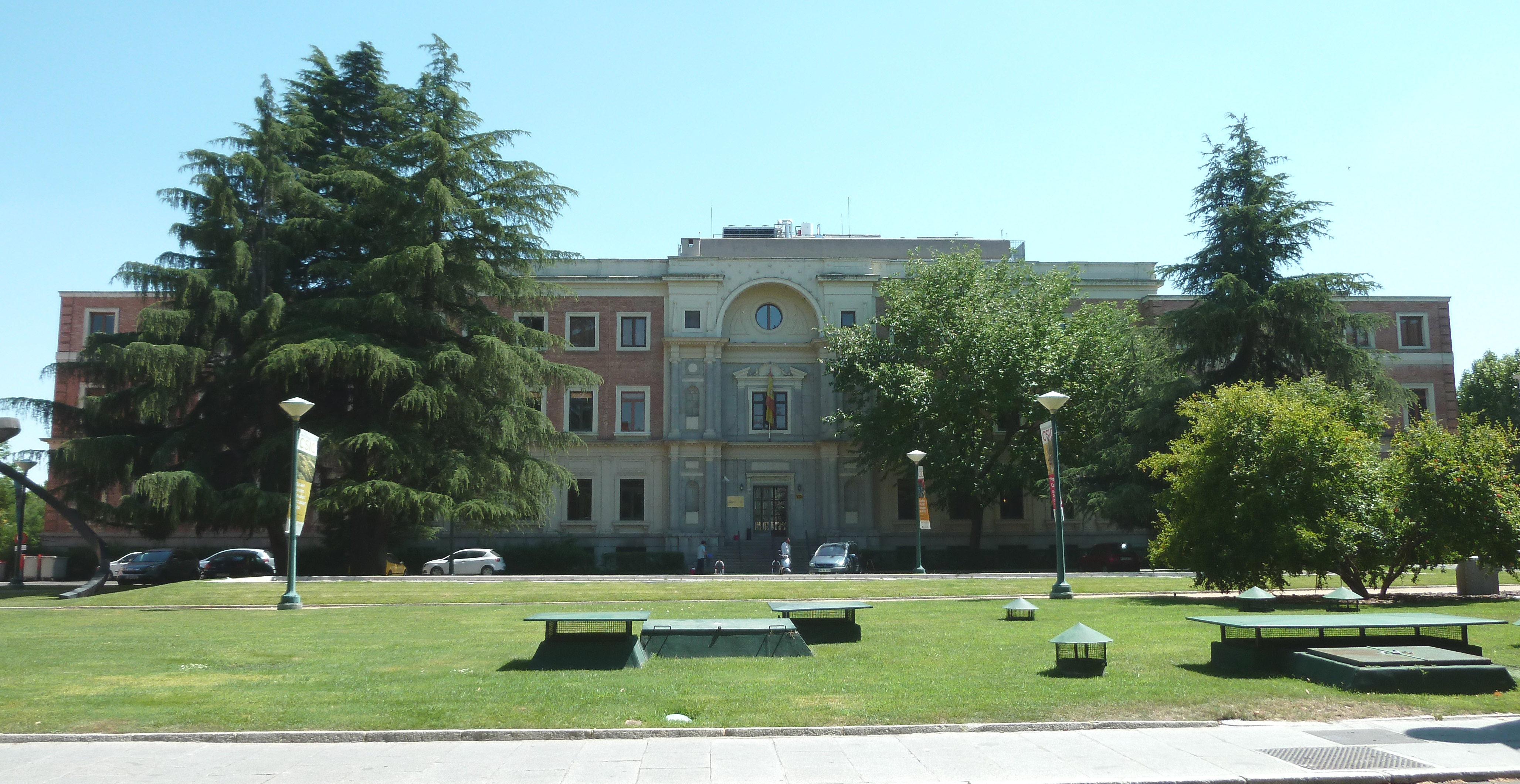 Façade of the Spanish National Historical Archive, at 115 Calle de Serrano (street) in Chamartín district in Madrid. Building projected in 1944 by Manuel Martínez Chumillas and inaugurated in 1953.